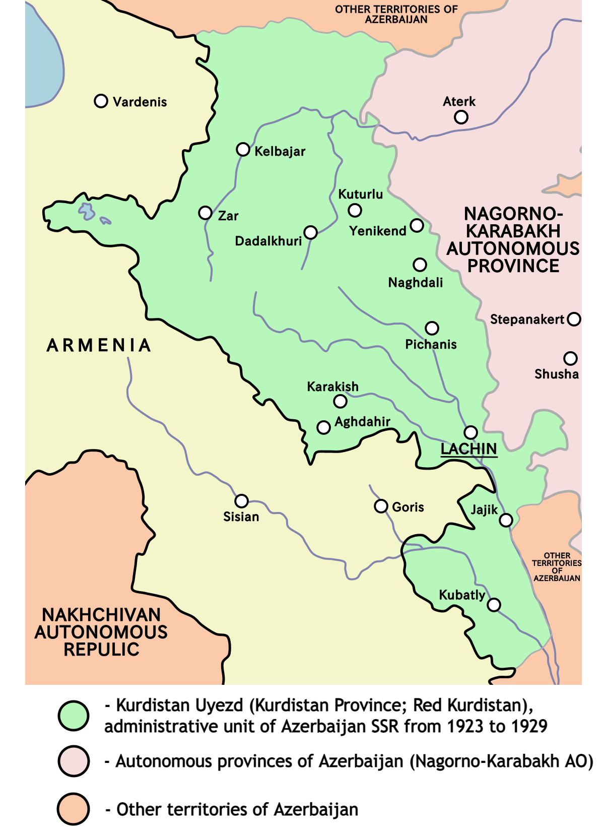 Map of Kurdistan Uyezd (Red Kurdistan, Kurdistan Autonomous Province) from 1923 to 1929 (borders according to the Kurdish historian Mehrdad Izady).